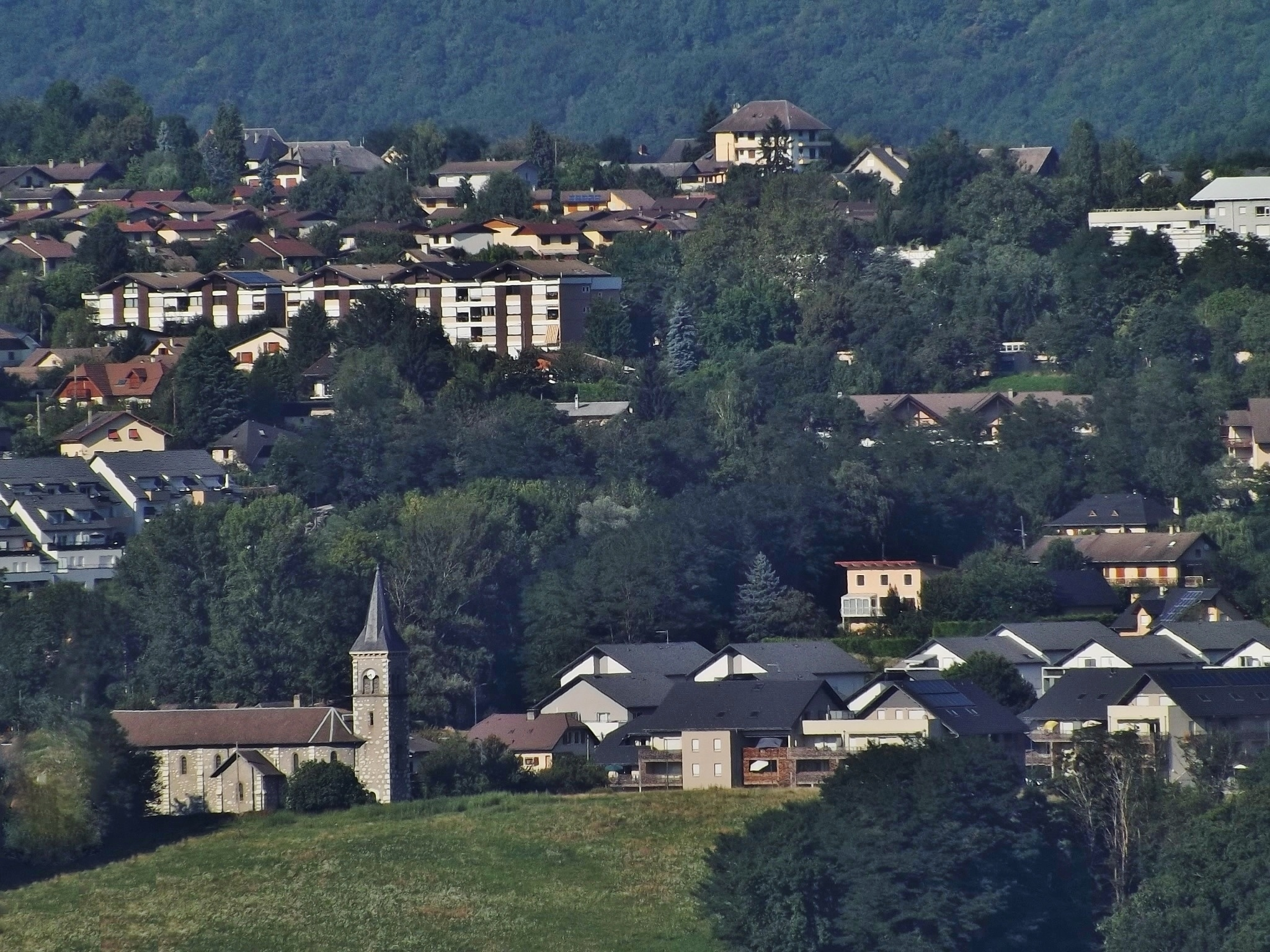 Panoramic sight of the Chambéry-le-Vieux, old village now attached to Chambéry (Savoie, France) and seen from the heights of Bissy, opposite neighborhood of the town.